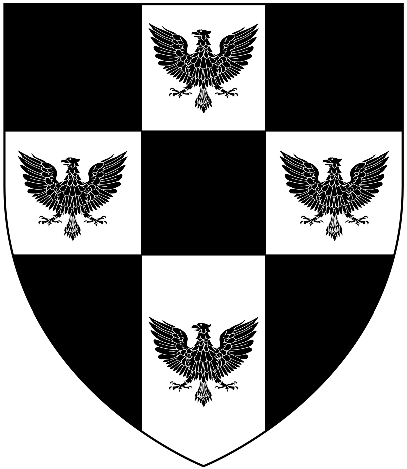 Arms of Buller: Sable, on a cross argent quarter pierced of the field four eagles displayed of the first (Burke's Landed Gentry, 1937, p.279)